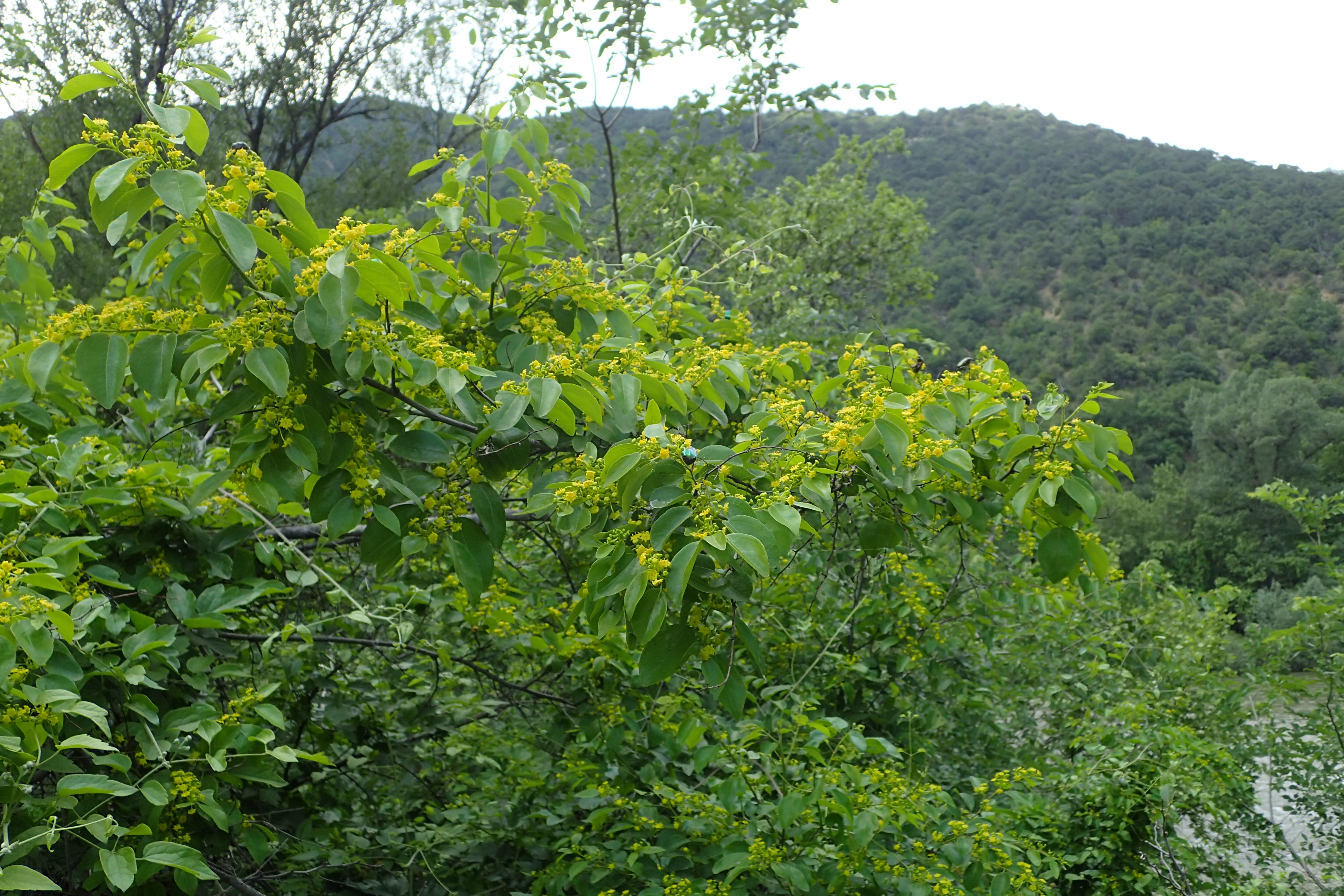 Paliurus spina-christi in Blagoevgrad, Bulgaria